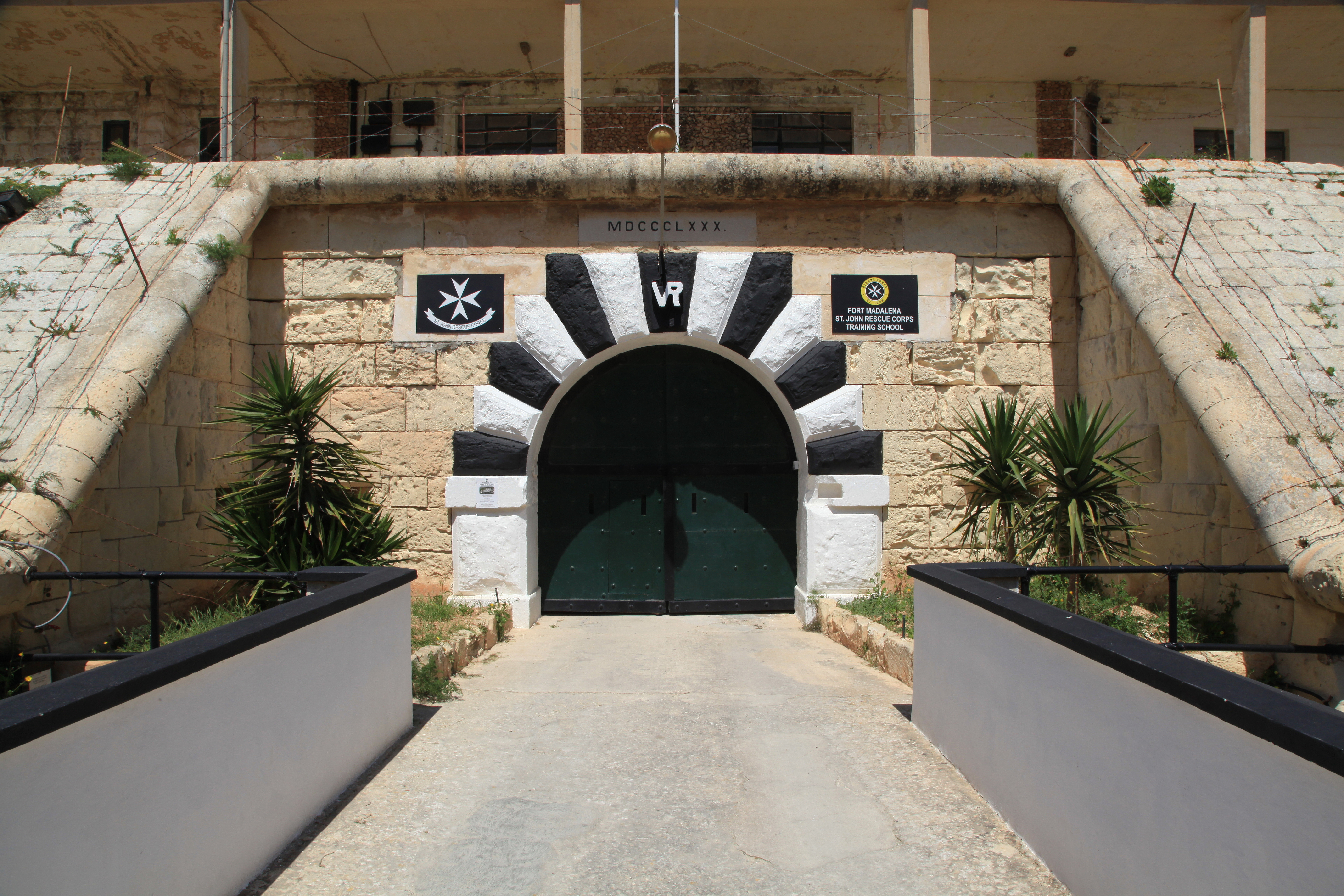 Fort Madliena, Triq il-Madliena in Swieqi, Malta